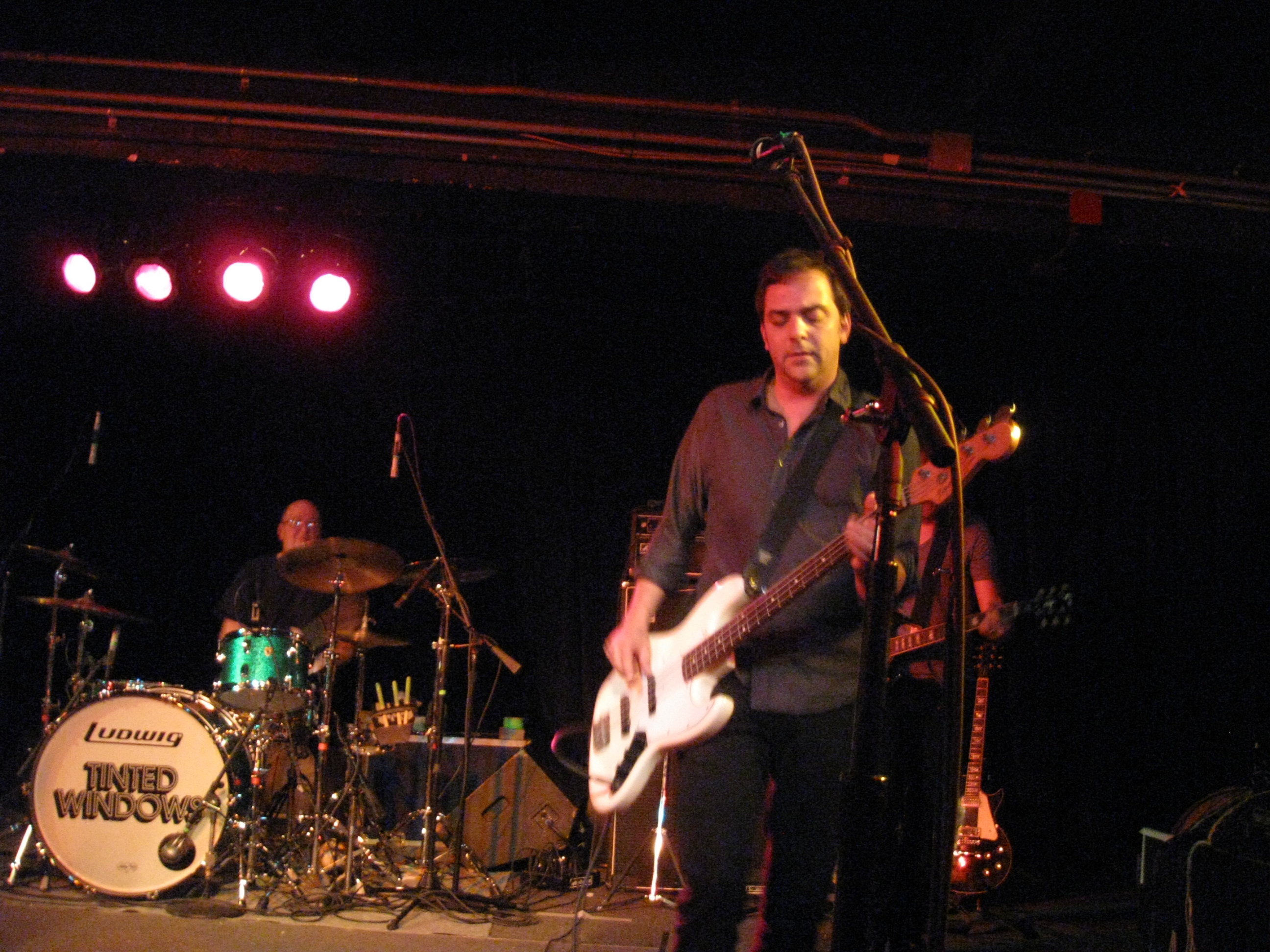 Power pop supergroup Tinted Windows play at the Washington, D.C. nightclub The Black Cat in August 2009, photographed by Claire Powers. This image was taken at the same time as these three pictures.